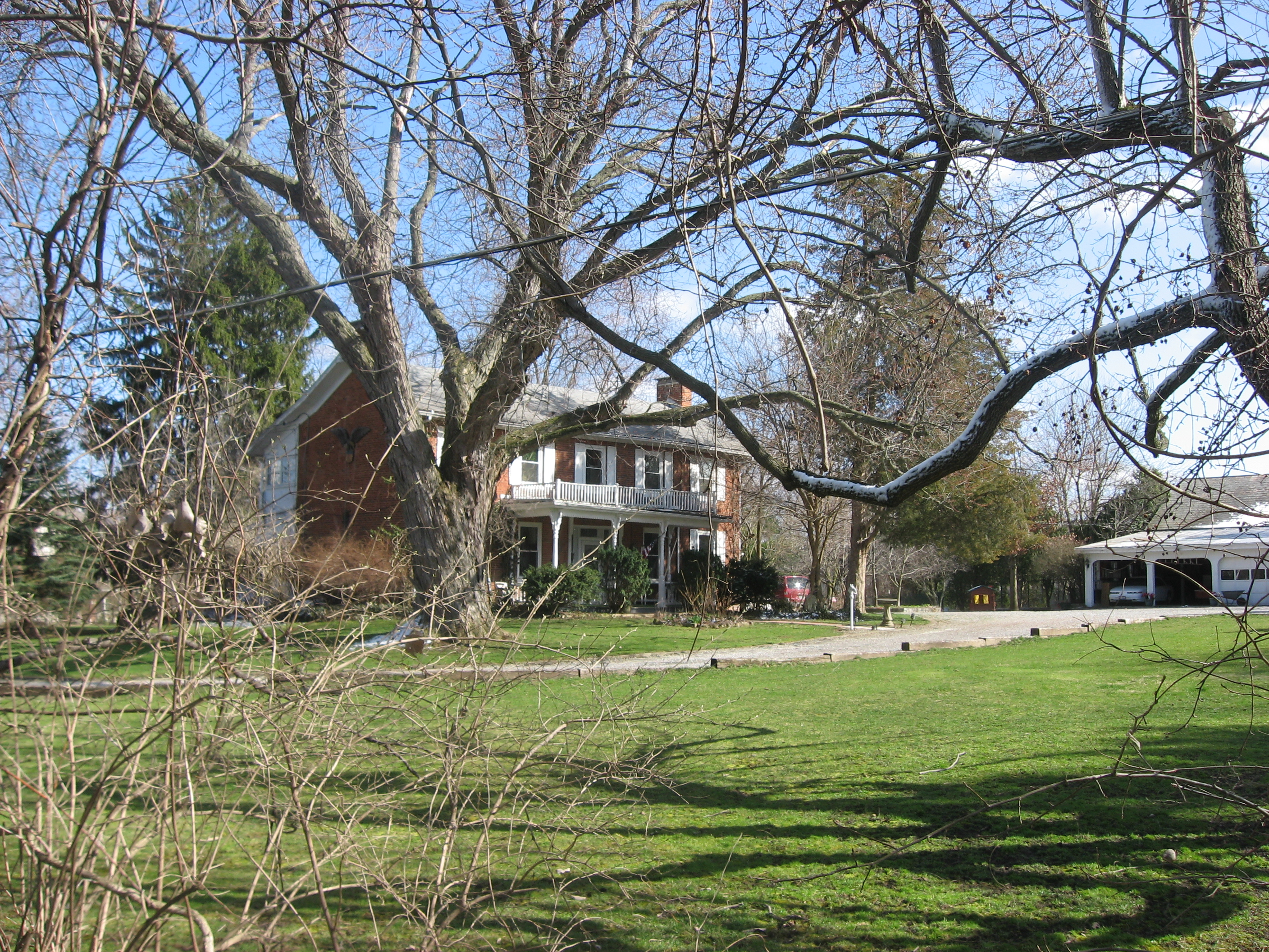 Front and southern side of the farmhouse at the Griffith Breese Farm, located at 2875 Fort Amanda Road southwest of Lima in Shawnee Township, Allen County, Ohio, United States. Built in 1840, it is listed on the National Register of Historic Places.